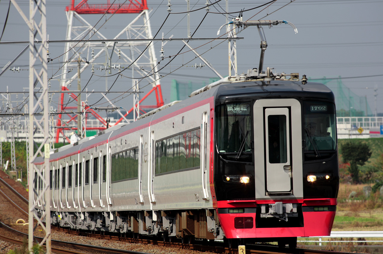 Meitetsu 1700 - 2300 series EMU (1702F, between Toyoake Stn. and Fujimatsu Stn.)